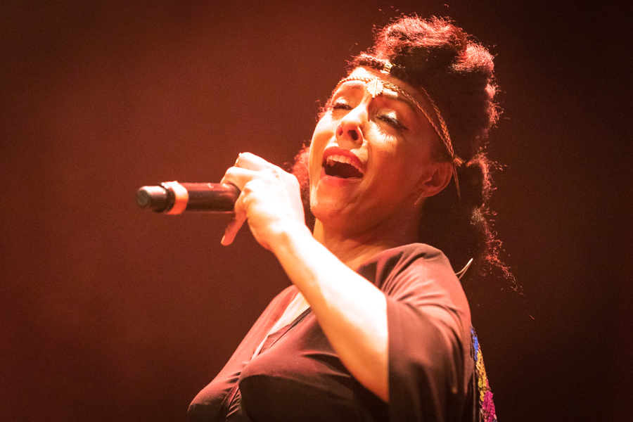 Marie Daulne in a concert with Zap Mama at Cosmopolite. The concert was part of Oslo Jazzfestival and took place on 16. August 2018 in Oslo. Lineup:Marie Daulne (vocal)Tanja Daese (vocal)Kesia Daulne-Quental (vocal)Bilou Doneux (vocal and guitar)Elvin Galland (keyboard)Manou Gallo (bass guitar)Boris Tchango (drums)